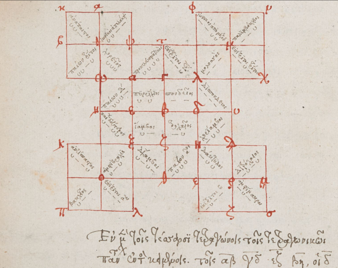 Square calculations by Isaac Argyrus, in De Metris Poeticis (greek:Τα περί μερών ποιητικών) Constantinople, 14th century From the Royal MS 16 C XX manuscript(16th century copy) at British Museum manuscript details